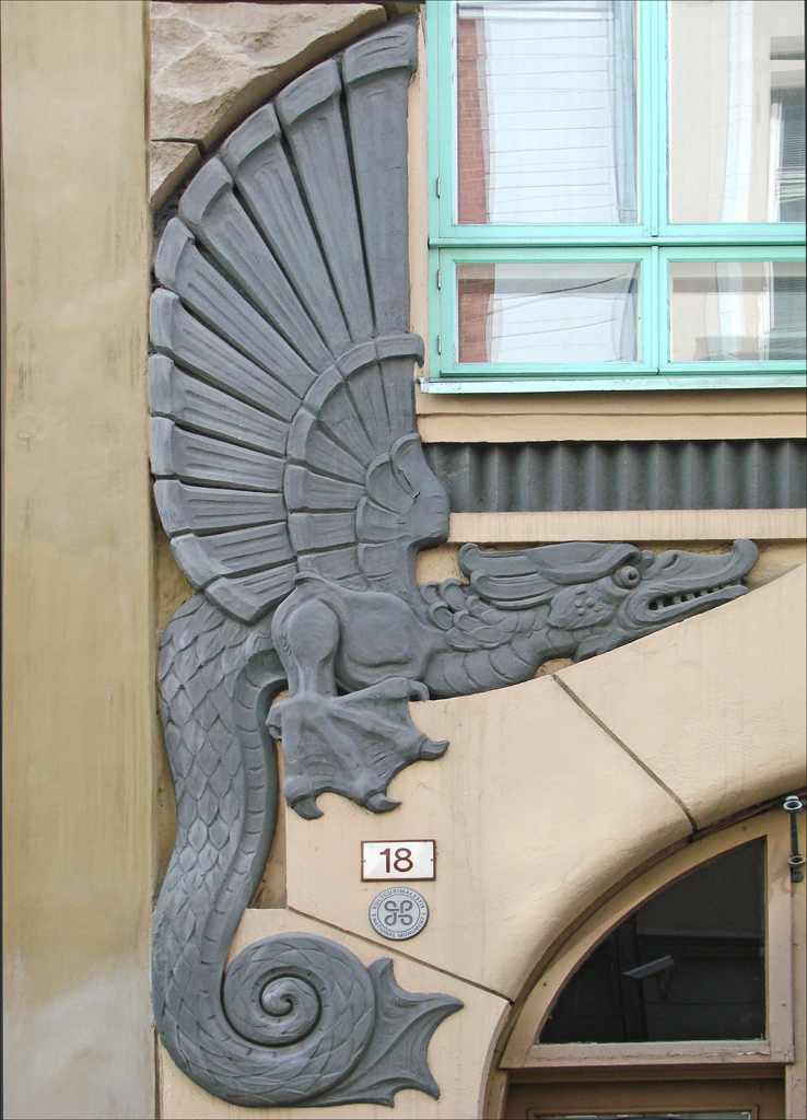 Art Nouveau building designed by Jacques Rosenbaum at Pikk 18, Tallinn